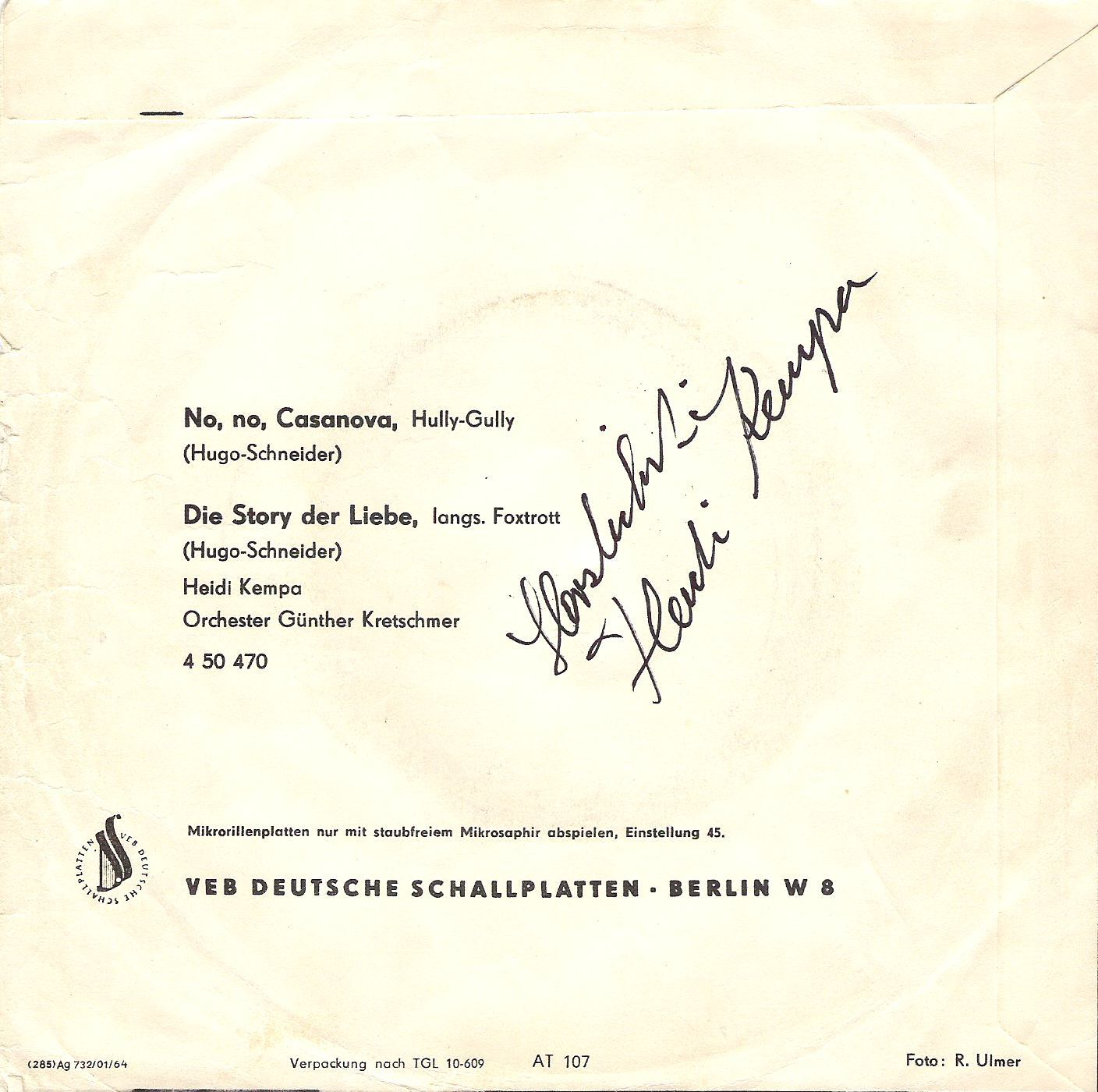 Heidi Kempa, Pop-Singer *1941, disc-cover, backside of the single AMIGA 450470 from 1965.